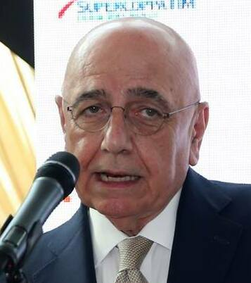 CEO of Adriano Galliani giving a speech during the lunch